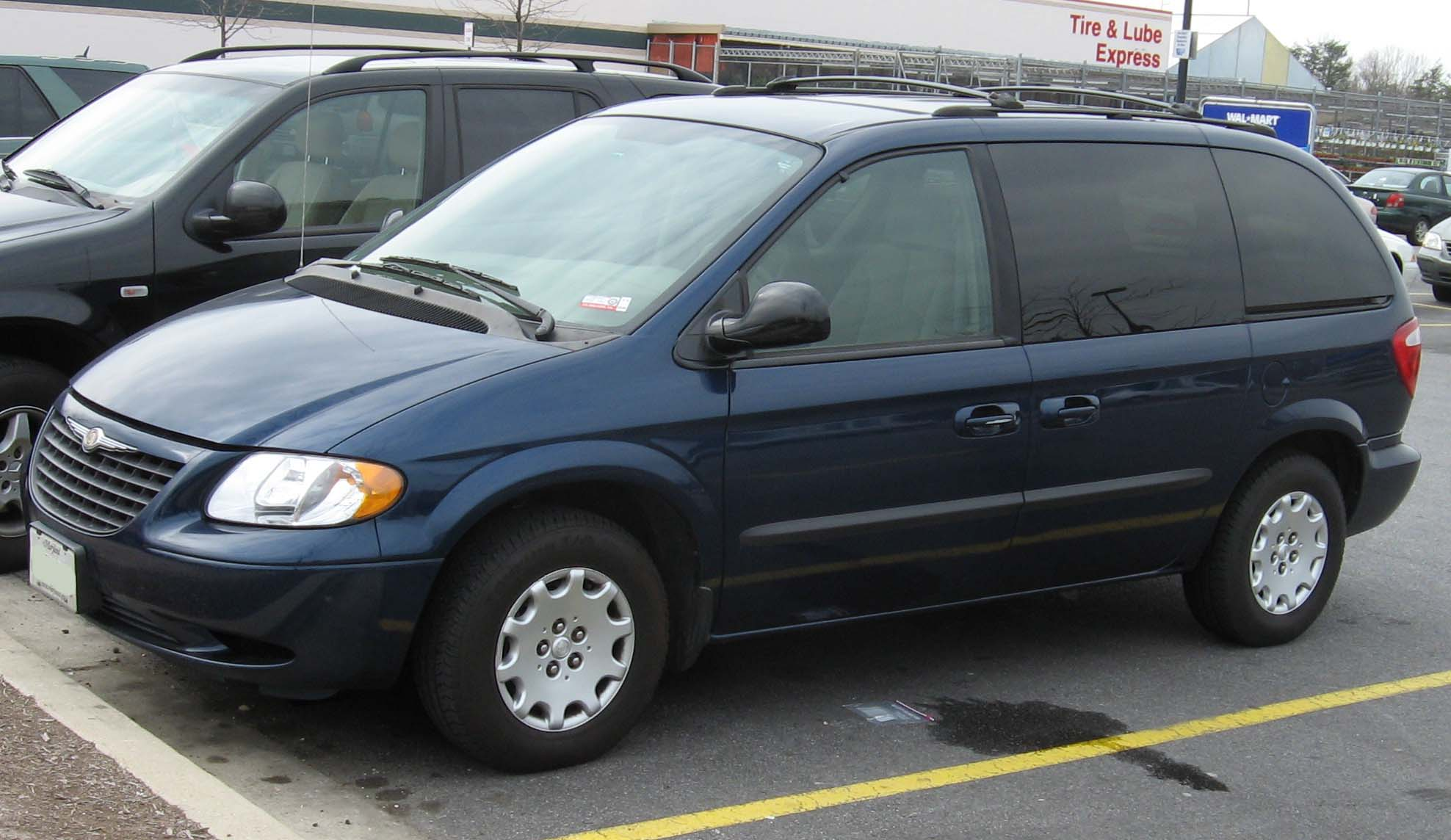 2001-2003 Chrysler Voyager photographed in USA.